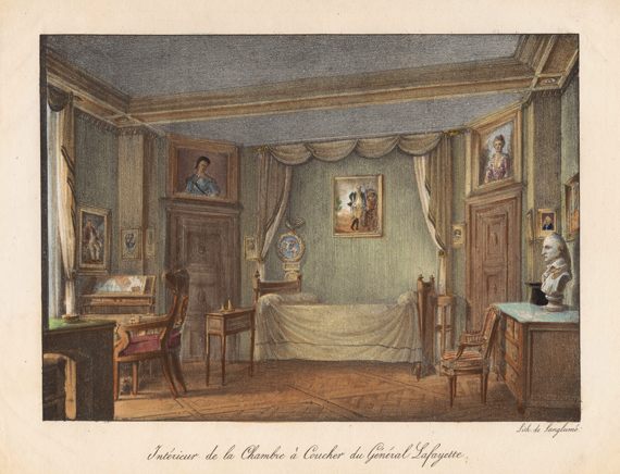 Lafayette’s Bedroom in Château de La Grange. Color Lithograph by Joseph Langlumé [between 1830 and 1840].